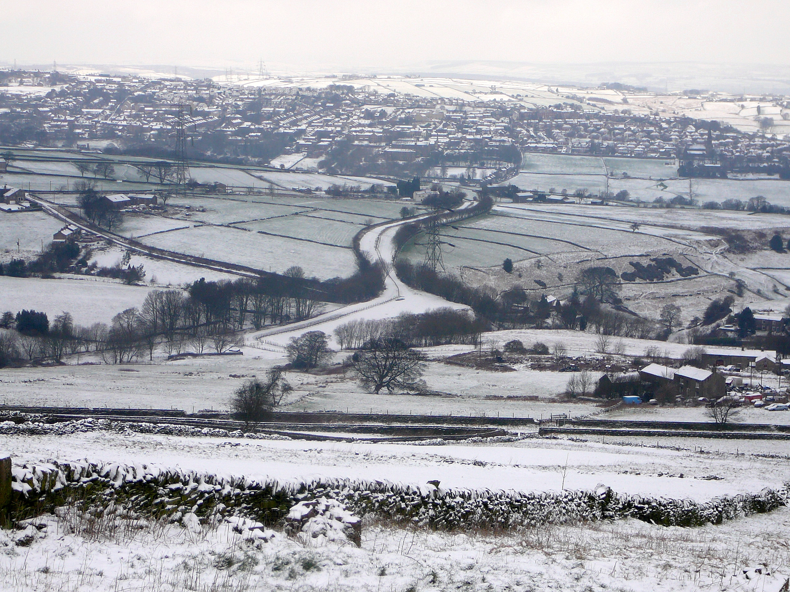 Looking down on the site of Queensbury Station, the old line to Keighley running towards the top of the picture in an inverted S shape.